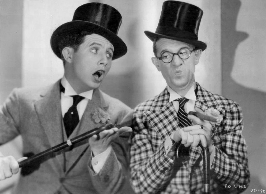 Photo of Bert Wheeler and Robert Woolsey from the film Peach O'Reno (1931).